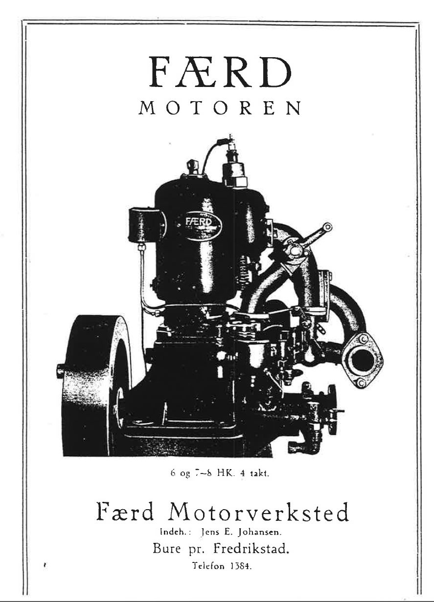 Faerd 7-8 hp petrol engine